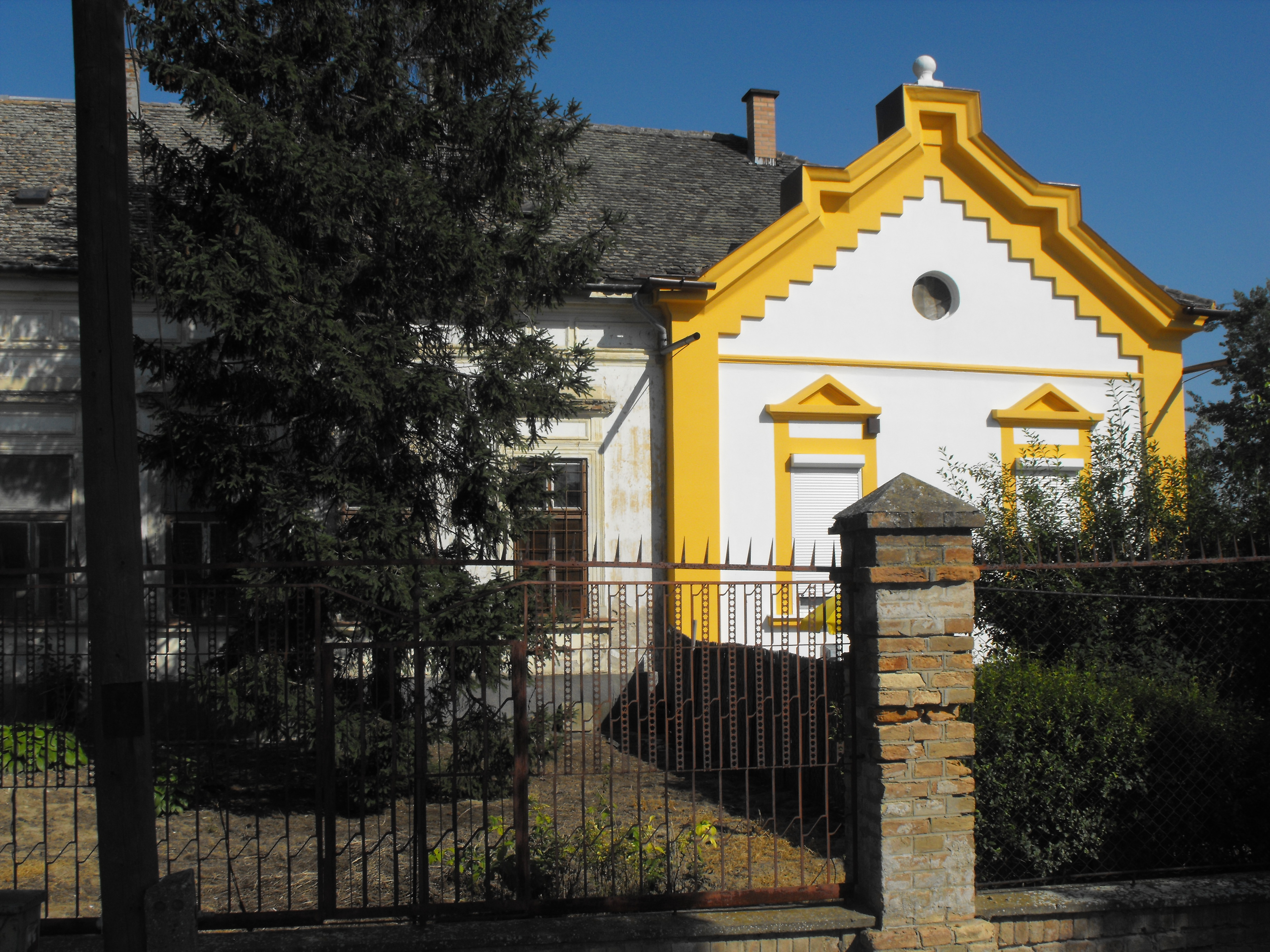 Economic school in Makó, Hungary, renovated wing of the building.